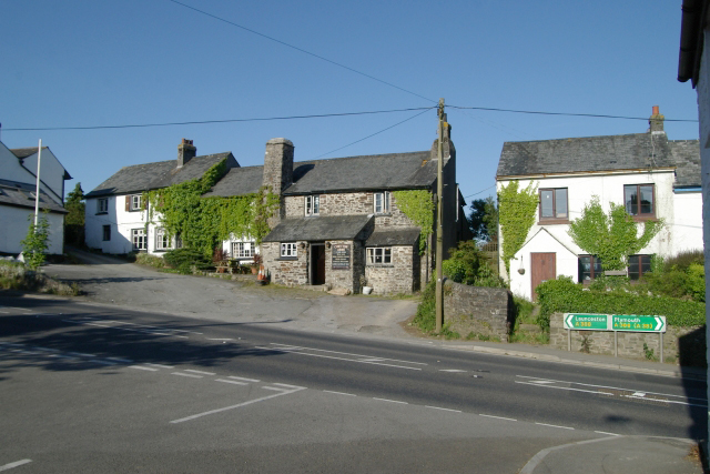 Coryton Arms, St Mellion, Cornwall. The Coryton Arms, St Mellion, Cornwall is on the busy A388 Saltash to Callington road.